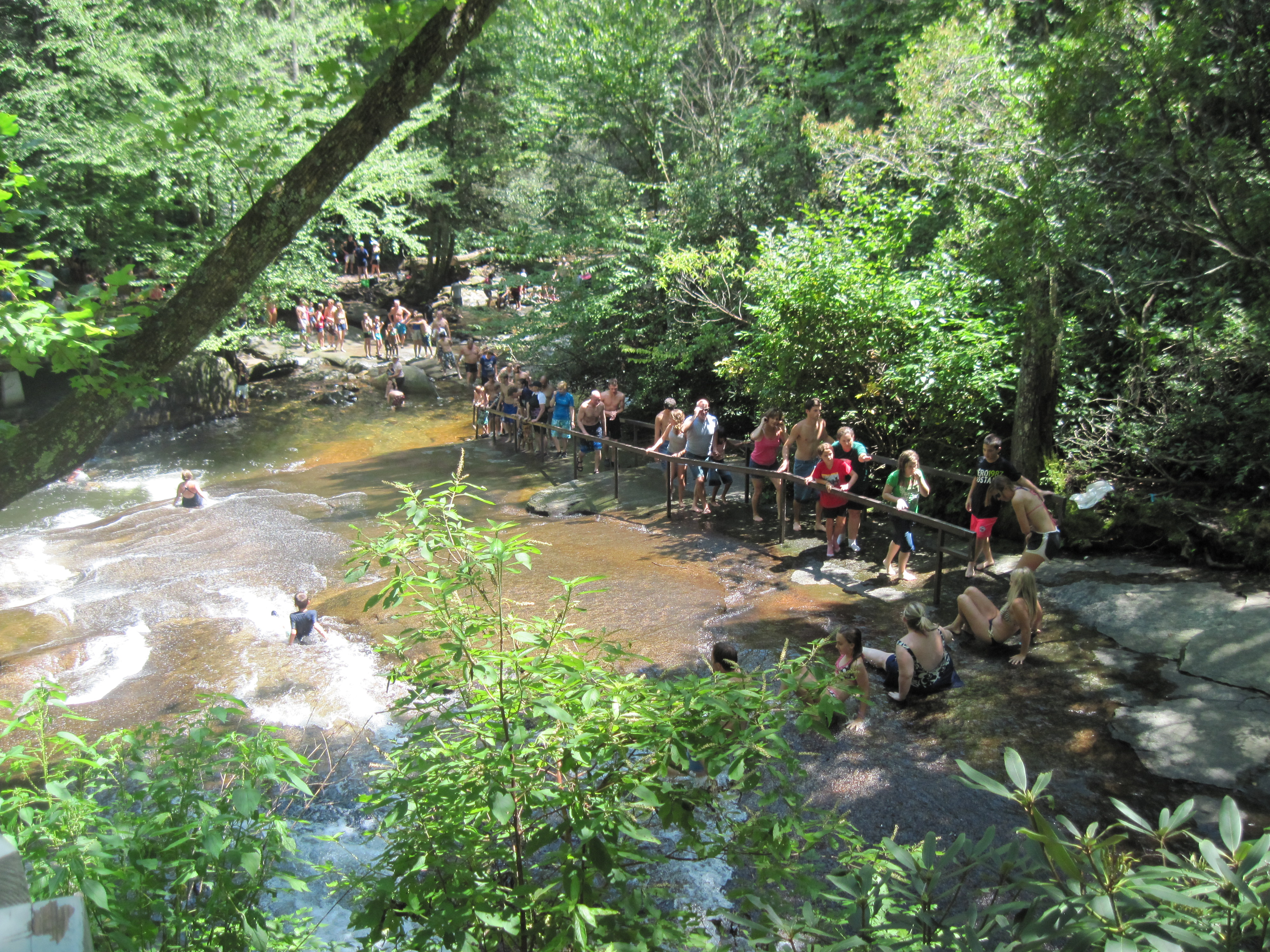 Weekday afternoon at Sliding Rock, in the Pisgah National Forest, near Brevard, North Carolina.